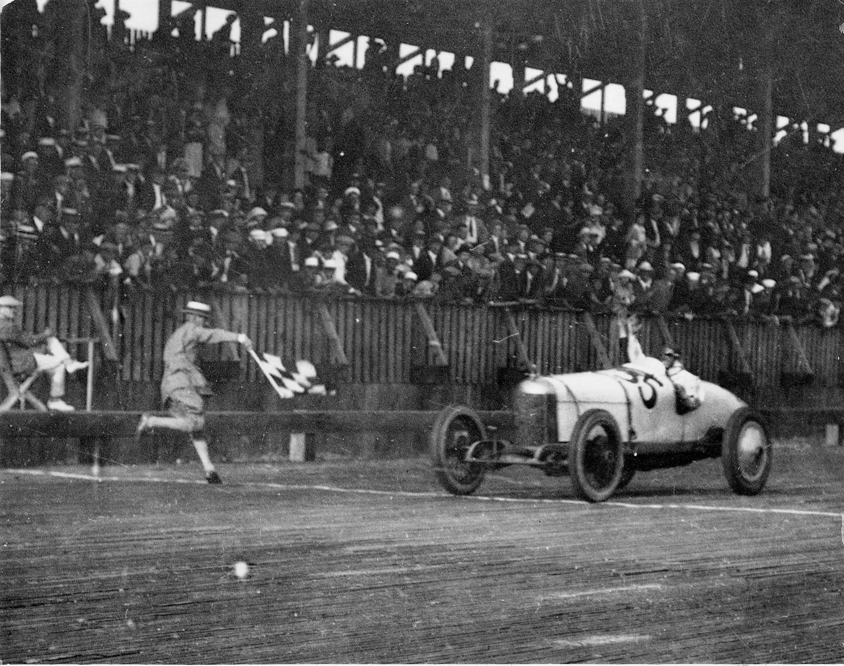 1 Jimmy Murphy raised his right arm in triumph as he passed the checkered flag waved by Fred Wagner, winning the July 4th 1922 Tacoma Speedway Classic and setting a new track record. Murphy finished the 250 mile race in 2:33:55, narrowly defeating Tommy Milton. Murphy's average speed was 97.6 mph. He was driving his own "Murphy Special." He was favored to win the Tacoma Classic, having won the 1922 Indy 500 on Memorial Day. He was also the first American to win the French Grand Prix, in 1921. His numerous wins entitled him to wear the crown of National Racing Champion in both 1922 and 1924. However, his racing career only spanned a short four years and nine months. He was killed in a crash at Syracuse, New York, in September of 1924. (TDL 7/5/1922, pg. 1) TPL-8797, Speedway-142